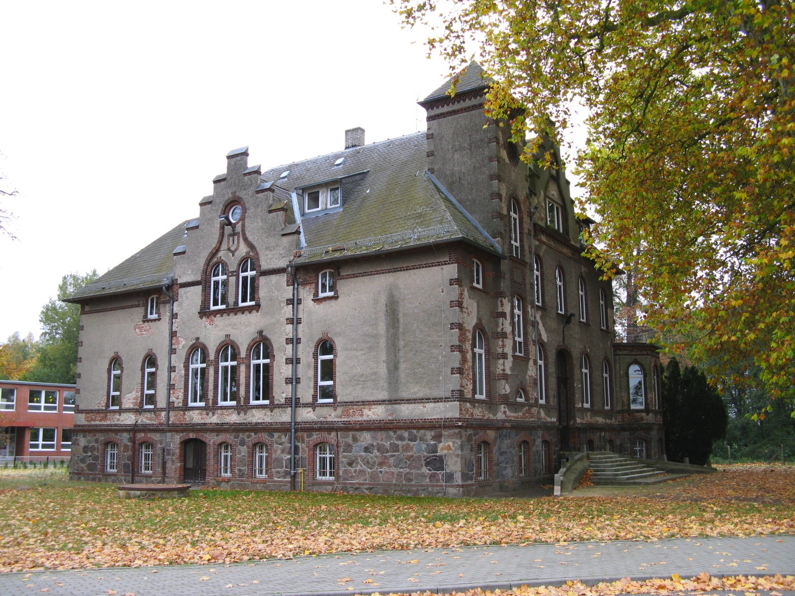 Philippshof Castle (used as school till 2005) in Putlitz, Brandenburg, Germany